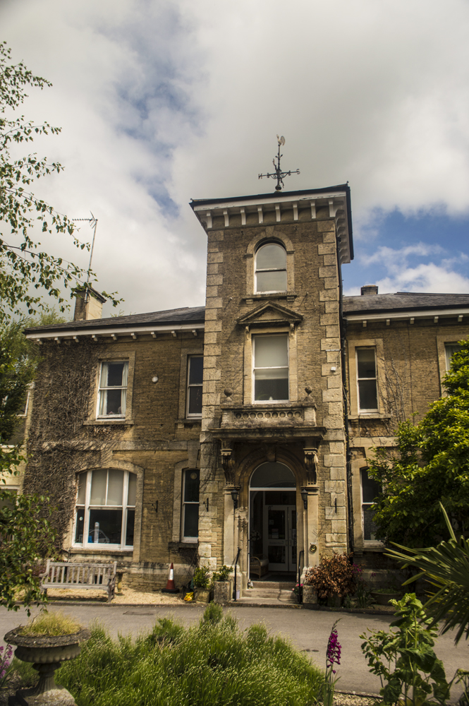 Rowden House, 2 Vallis Road, Frome, Somerset BA11 3EA; Grade II listed building, the Emma Sheppard Centre, specialist dementia care; named after the reformer Emma Sheppard